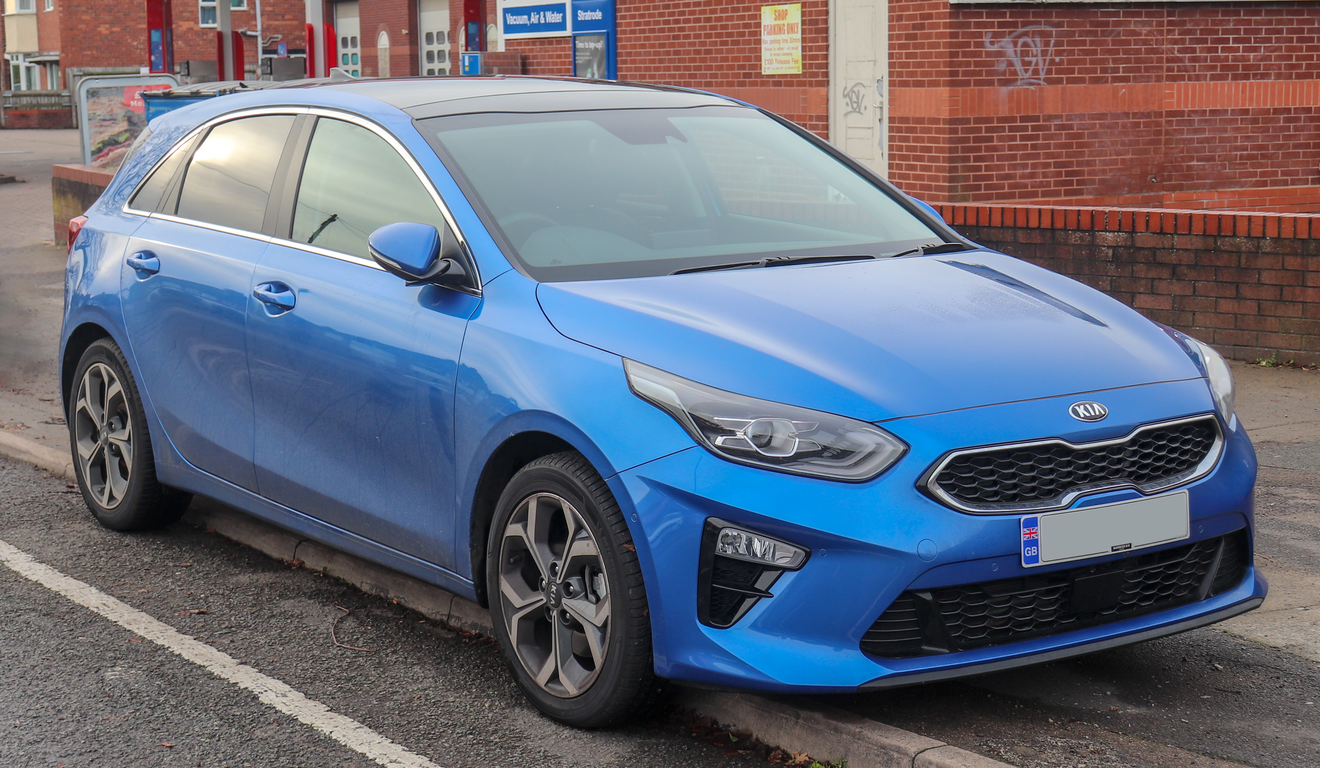 2018 Kia Ceed First Edition ISG 1.3 Front